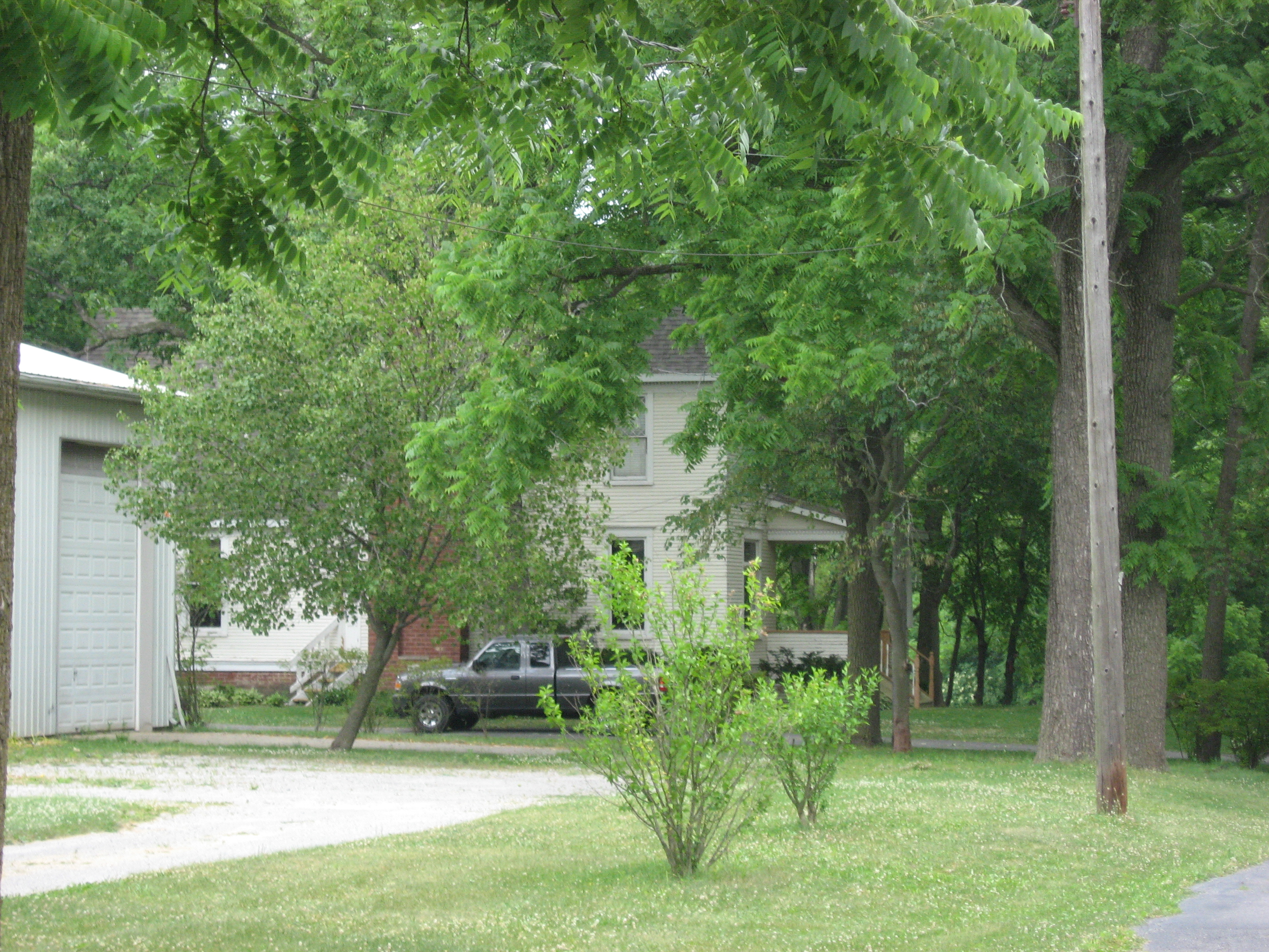 Western side of the James Brannon House, located at 260 Burnham Street in Lowell, Indiana, United States. Built in 1898, it is listed on the National Register of Historic Places.